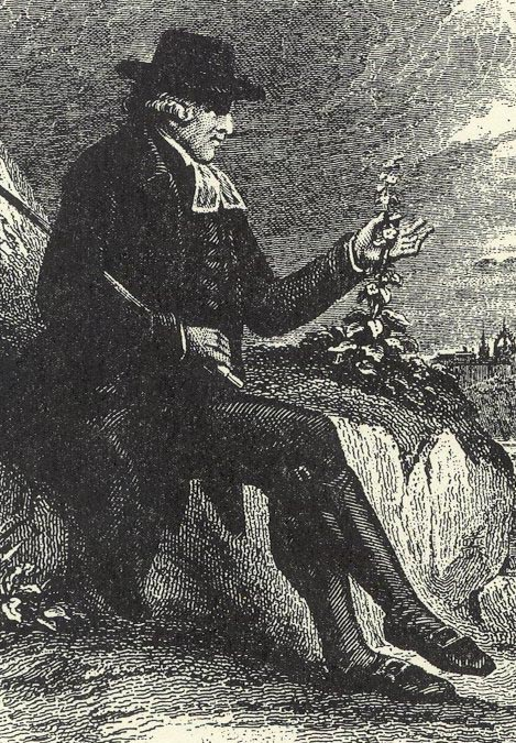 Rev Dr John Walker, Edinburgh's Professor of Natural History (1779-1803) Frontispiece from a volume of the Naturalists Library (1842) (copyright has expired)